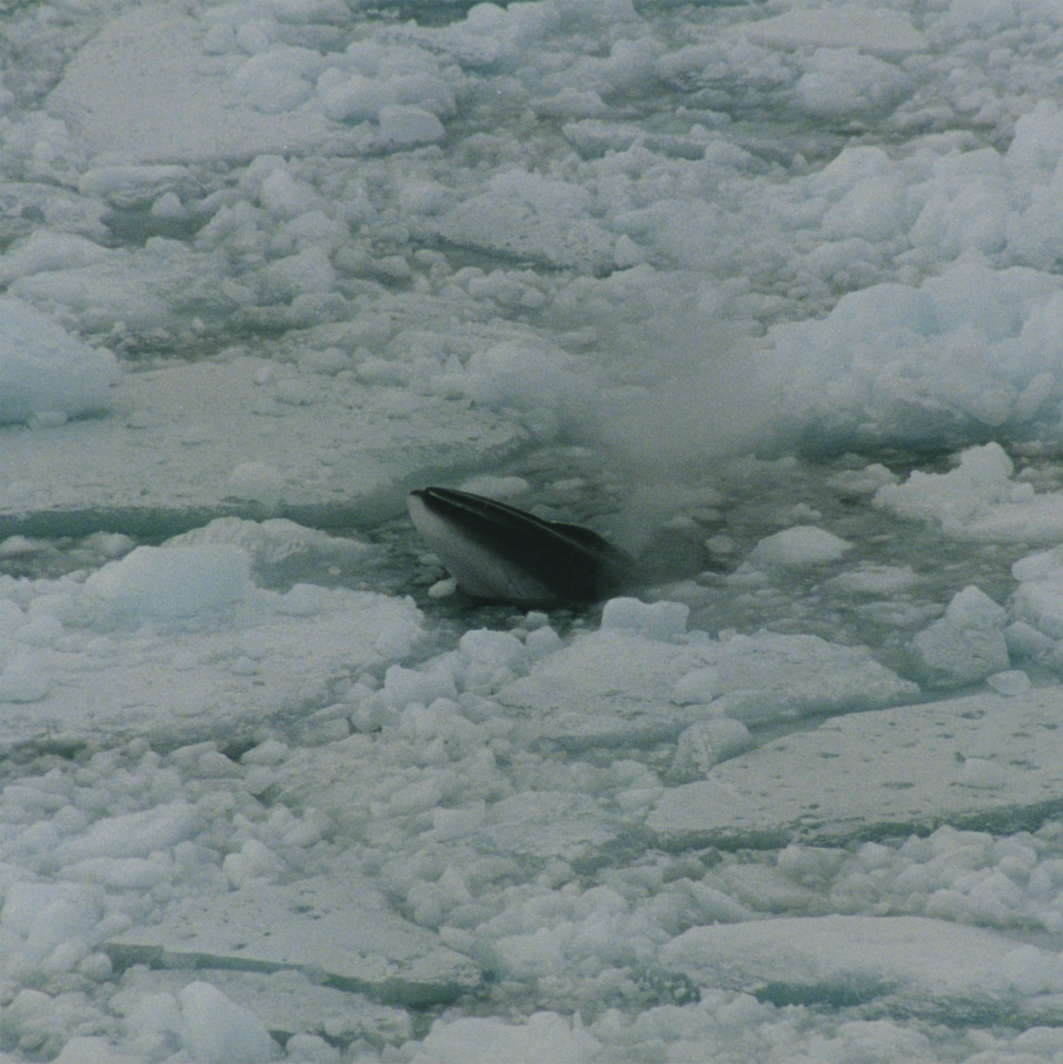 Minke whale in Ross Sea, Antarctica The picture is a scan of an old film picture.